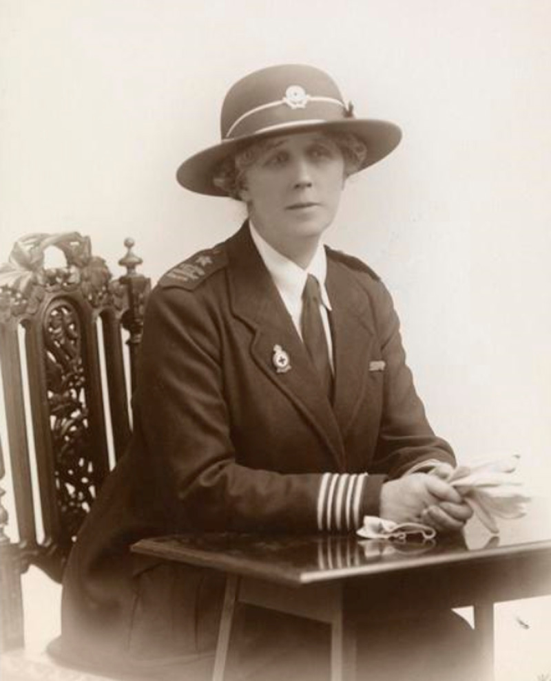 Elinor Mary Charrington, wife of Hugh Spencer Charrington who owned Dovecliff, Burton Upon Trent